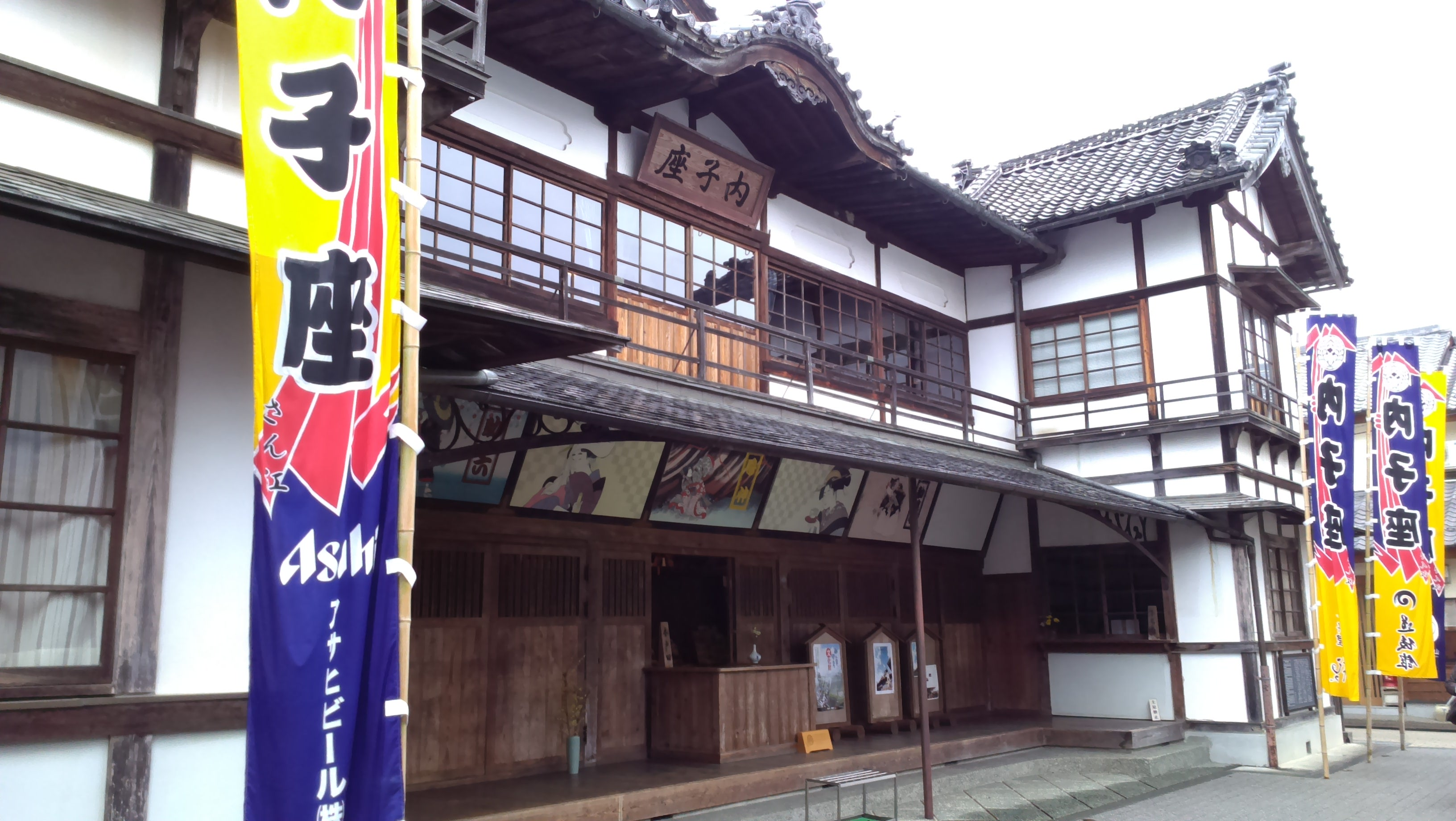 Uchikoza Main Gate